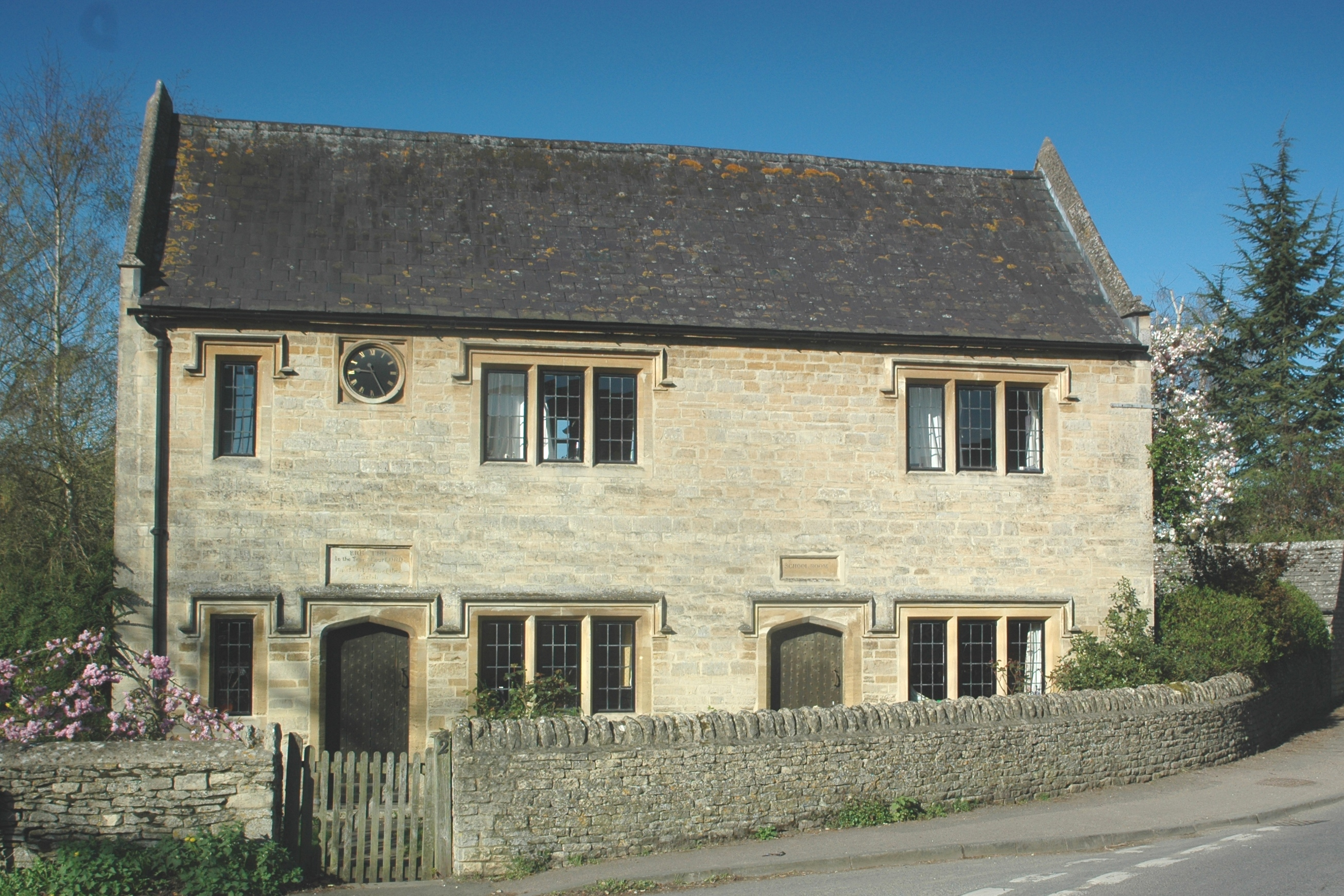 Former parish clerk's house and parish school, Cassington Road, Yarnton, Oxfordshire, seen from the east